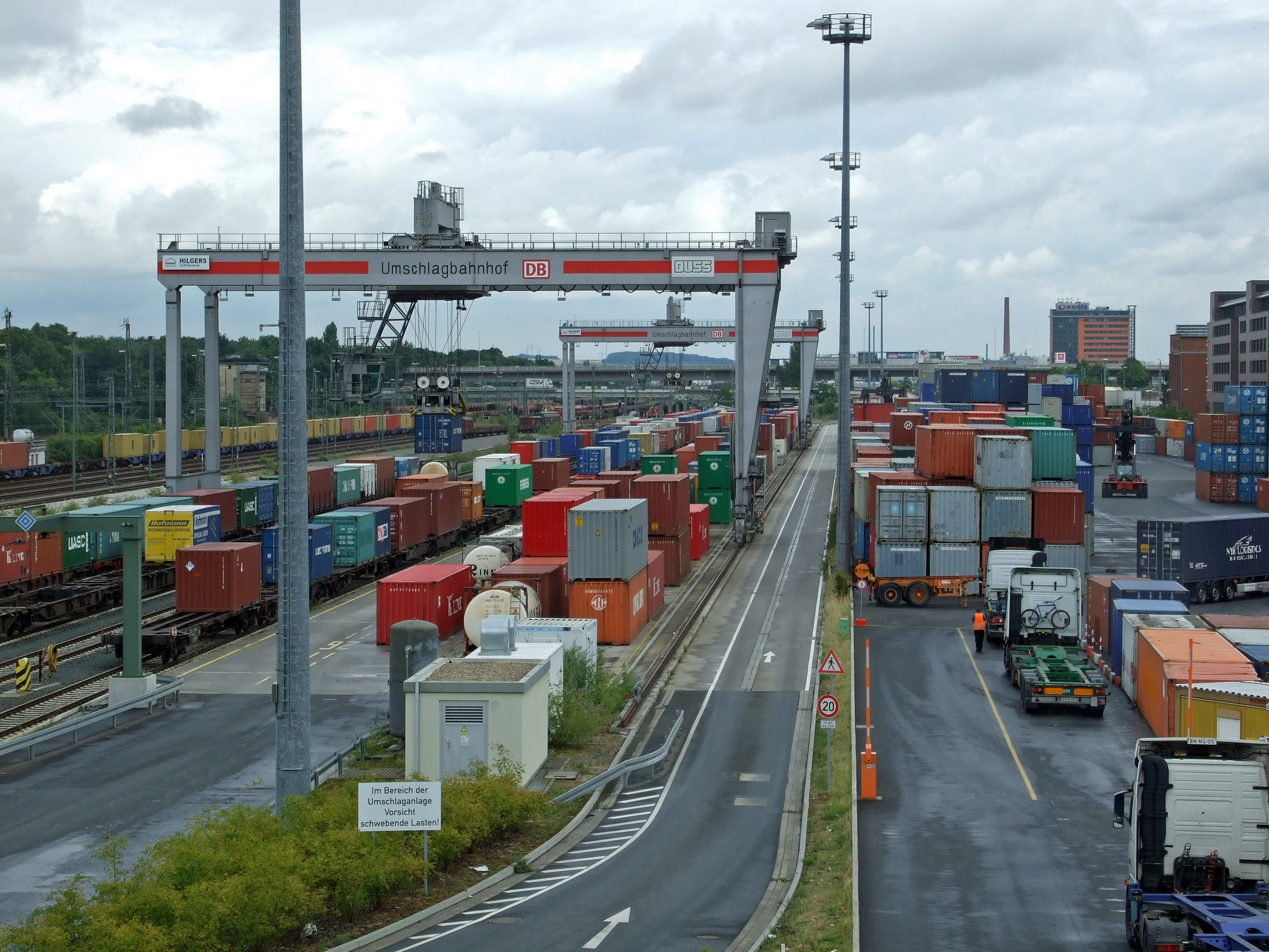 Container terminal, Frankfurt am Main East